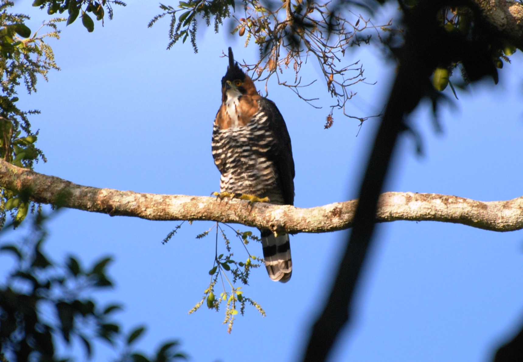 Eagle in Calakmul